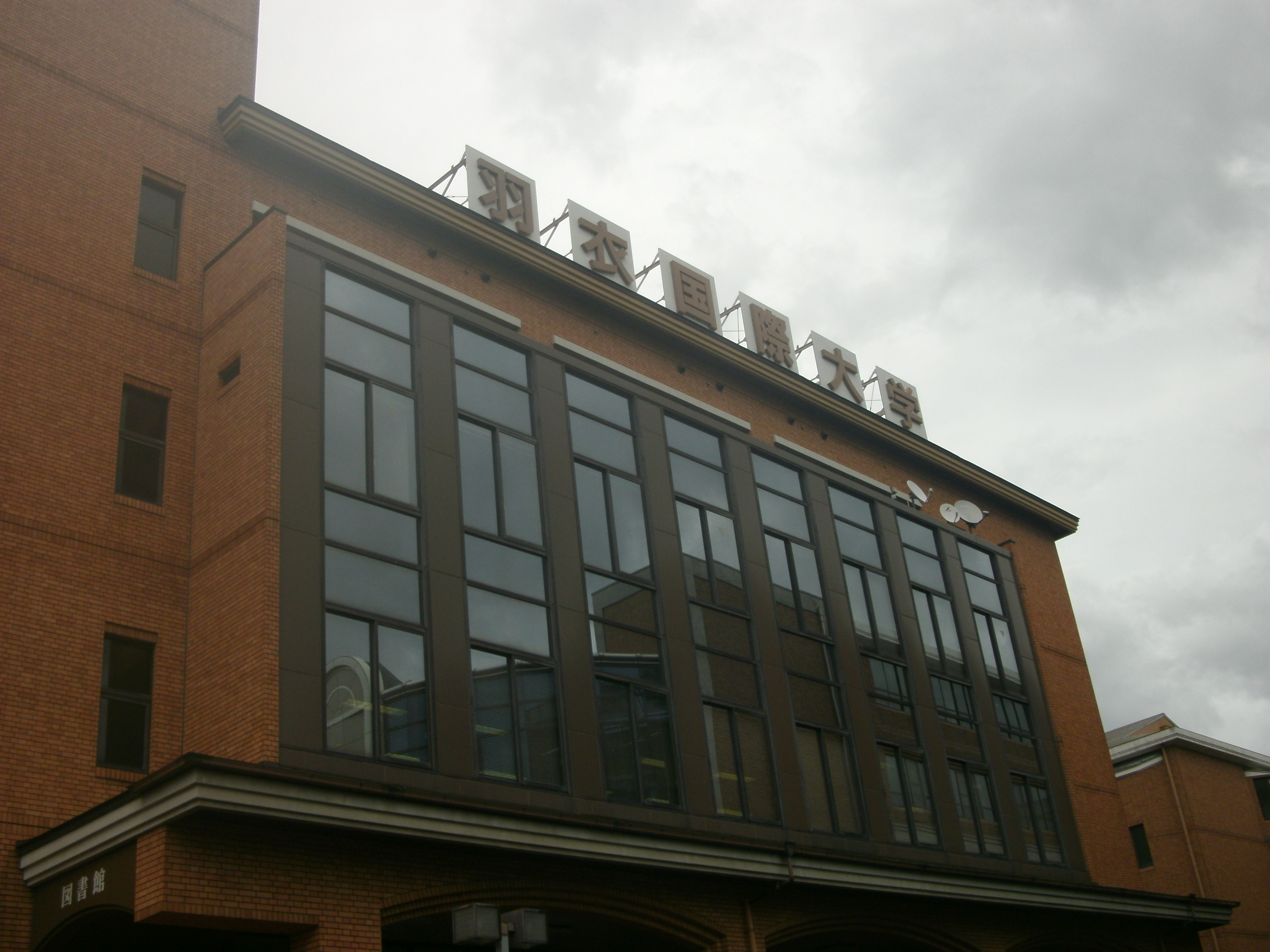 Hagoromo International University